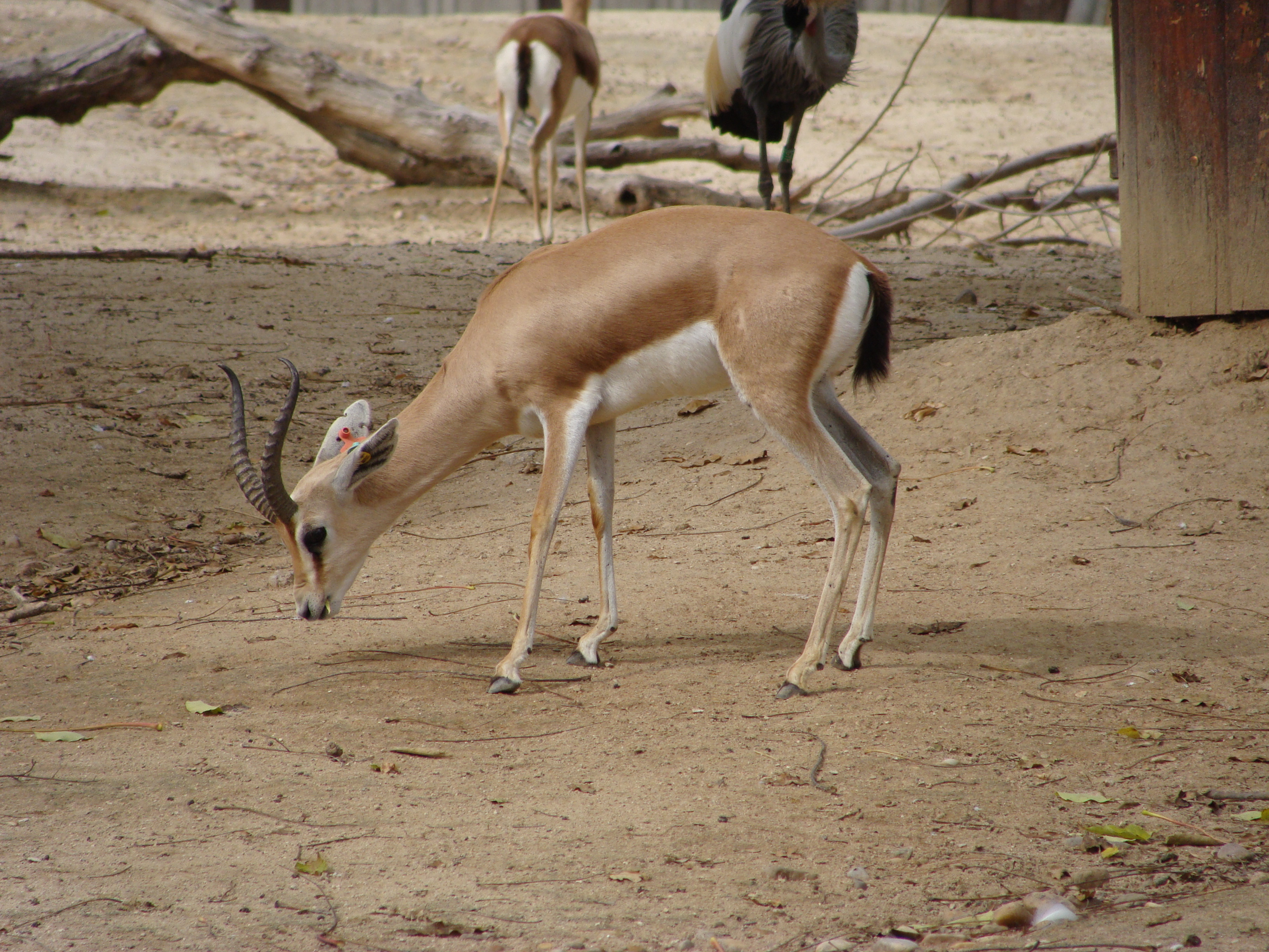 Gazella dorcas neglecta (Dorcas gazelle) in the Zoo de Madrid, Spain.